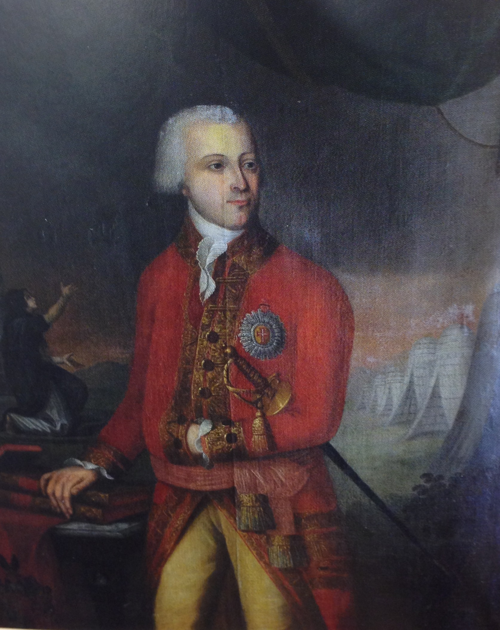 scan from Marquesa de Alorna, Maria João Lopo de Carvalho